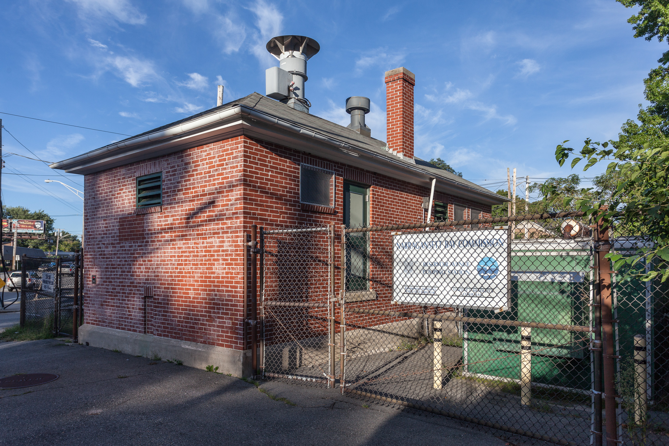 Reservoir Avenue Sewage Pumping Station is an historic site at Reservoir and Pontiac Avenues in Providence, Rhode Island. The site was built in 1931 in a Colonial Revival style by the office of city engineer in Providence and was added to the National Register of Historic Places in 1989.